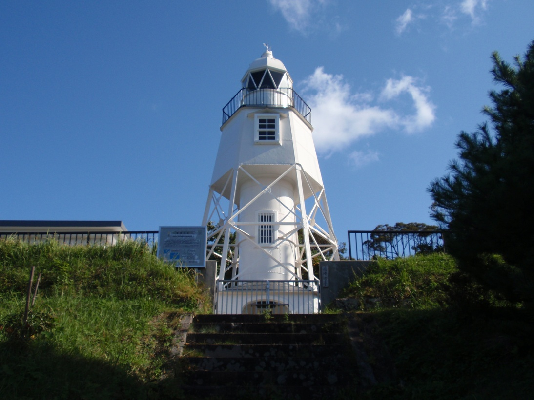 Himezaki Lighthouse in Sadogasima